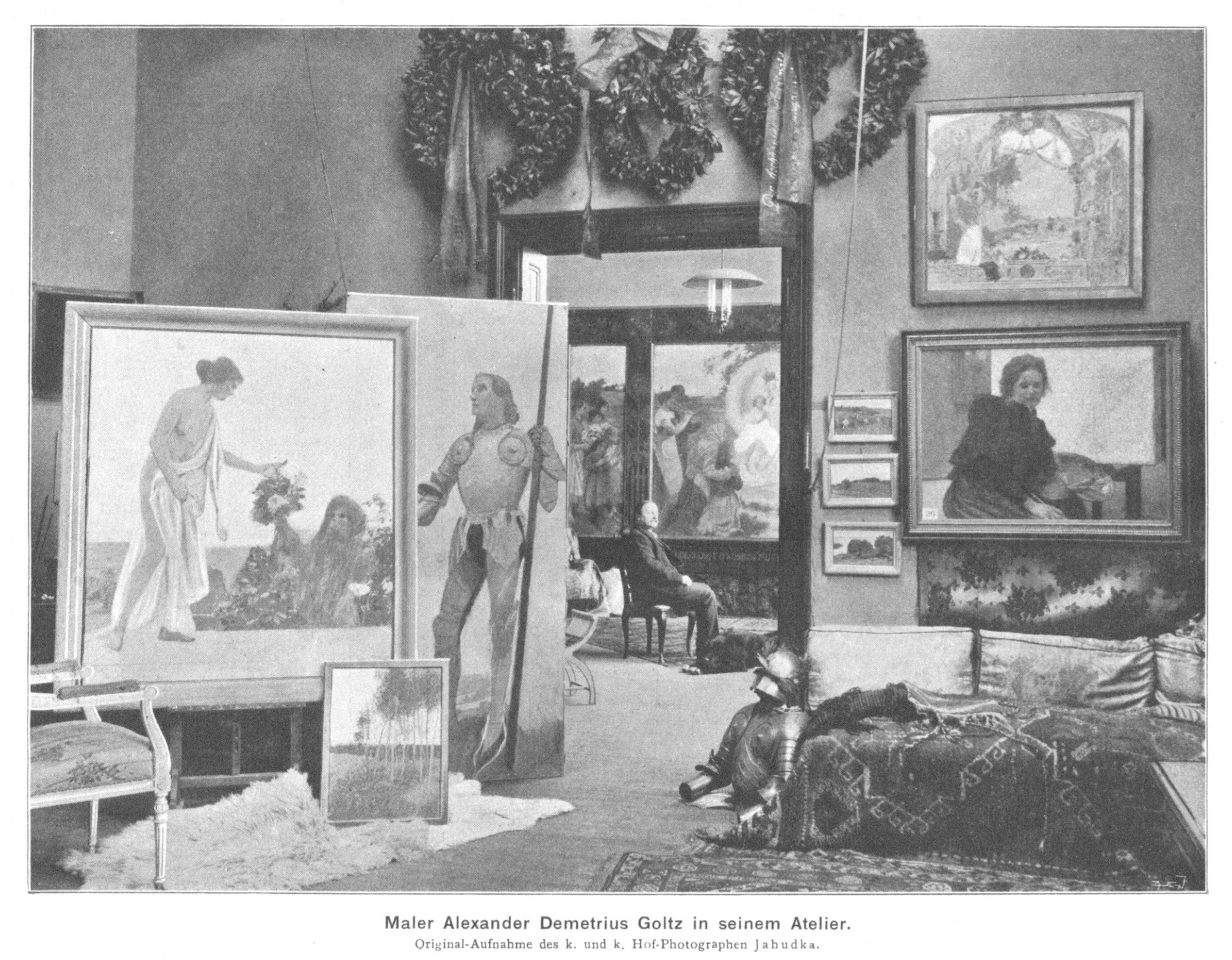 Painter Alexander Demetrius Goltz (1857-1944) in his studio